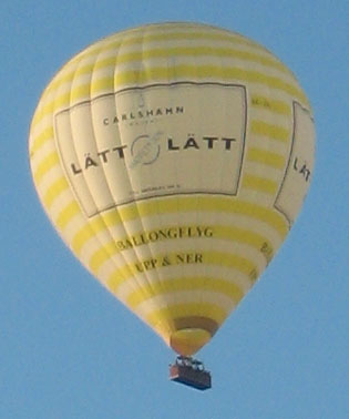 A Hot air balloon in Stockholm june 2009 with commercial: Carlshamns mejeri. Photo by the uploader.